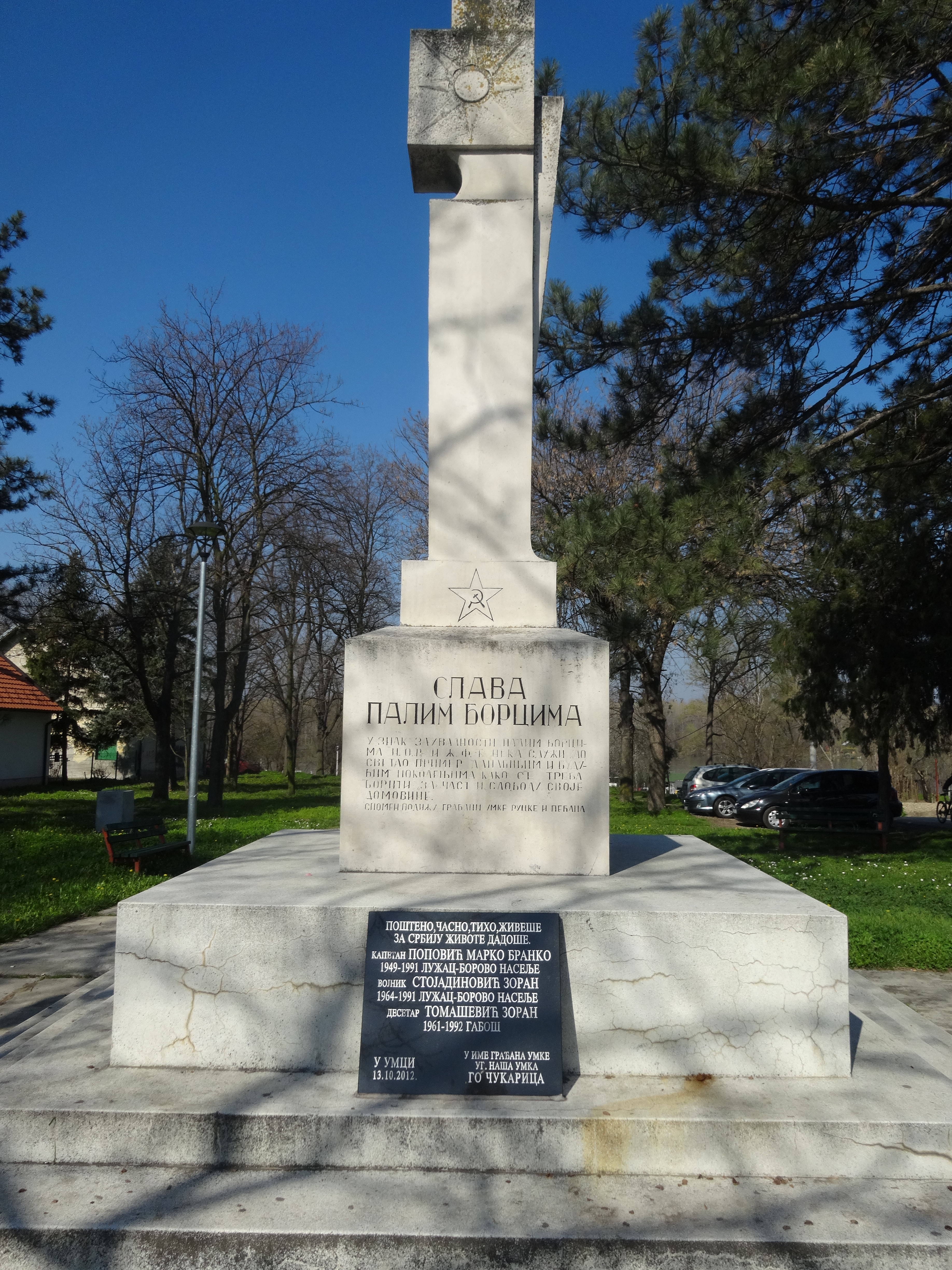 Umka, Monument to the fallen warriors Српски (ћирилица): Умка, Споменик палим борцима